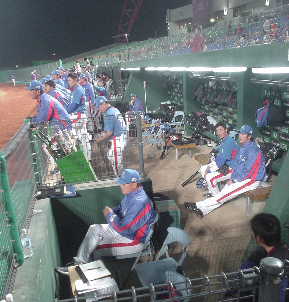 A shot from the Korean dugout during a dramatic game with Japan at the 2006 Intercontinental Cup in Taichung, Taiwan on November 11, 2006. Photo taken on November 11, 2006.